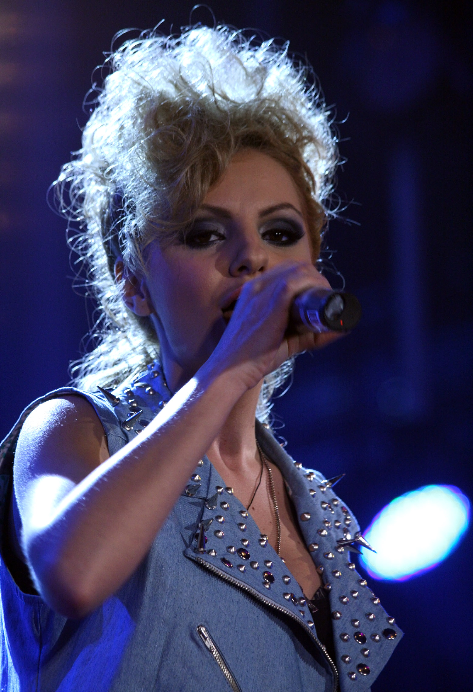 Alexandra Stan performing at the presentation of the Austrian Sportspersonalities of the Year 2011 (Eventhotel Pyramide in Vösendorf, Lower Austria).